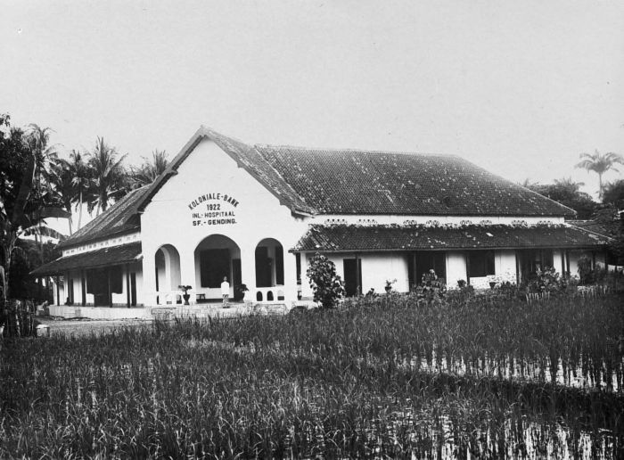 Plantations in the past and present have in many a bad reputation in the field of industrial relations. In the sugar plantations in Java that was not the main point of criticism. In the eyes of the critics it was the low land rent paid and the possible involuntary nature of the temporary surrender of land by the farmers. When working on the plantation should be a distinction between the permanent workers in the factory and the temporary 'campaign workers, or loose the forces that the ground edited and cut the reeds. The permanent employees of the sugar formed in many ways an elite of workers, for that time and place, good wages and facilities, including the hospital affiliated to the factory. (P. Orchard, 2001). 'Native Hospital' Gending of the Sugar Factory, East Java Native hospital sugar Gending, East Java, c. 1925